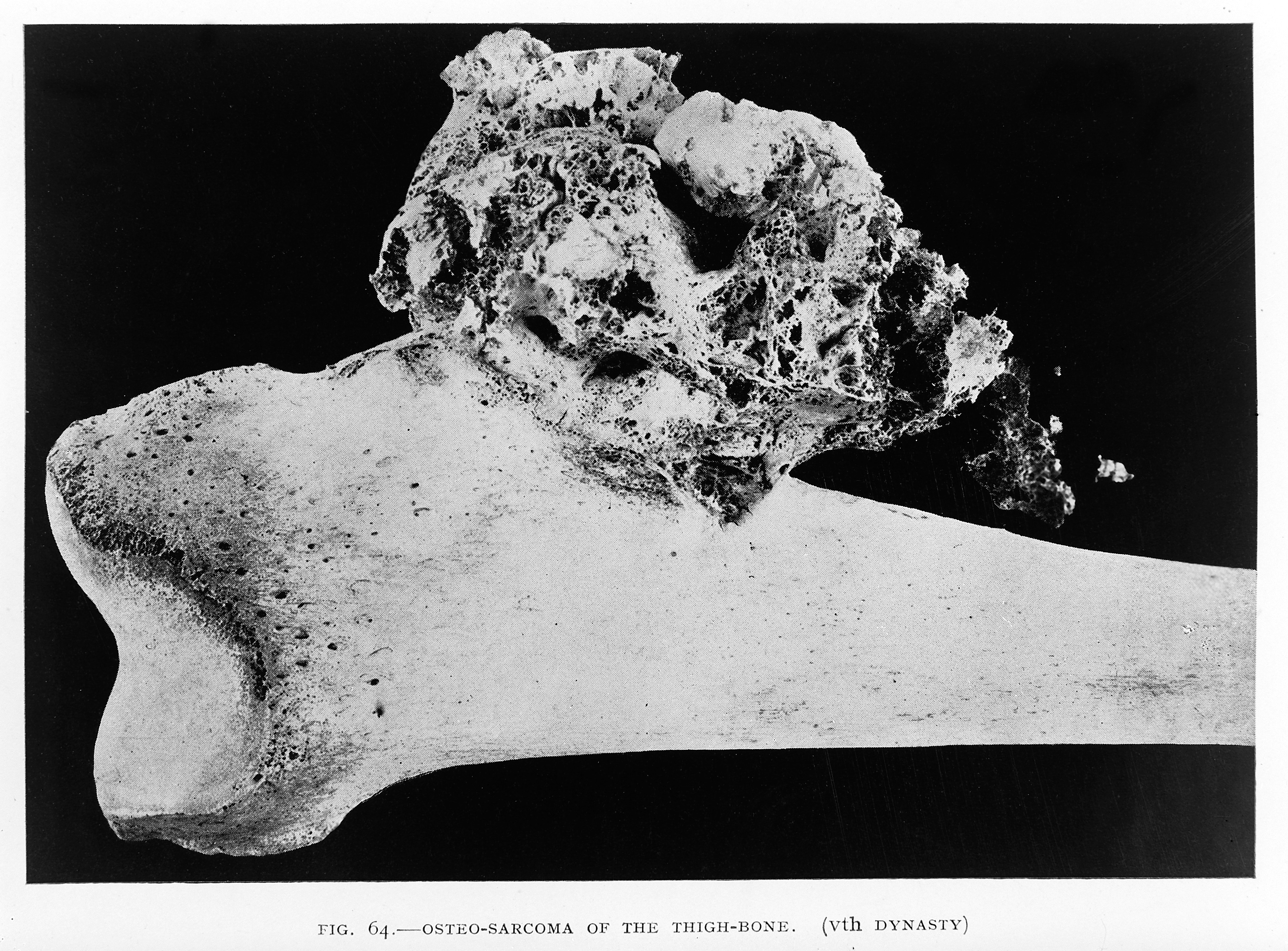 Osteosarcoma of the thigh bone, Egyptian, 5th Dynasty General Collections Keywords: palaeopathology; egyptology; oncology; G. Elliot Smith,; Warren R. Dawson